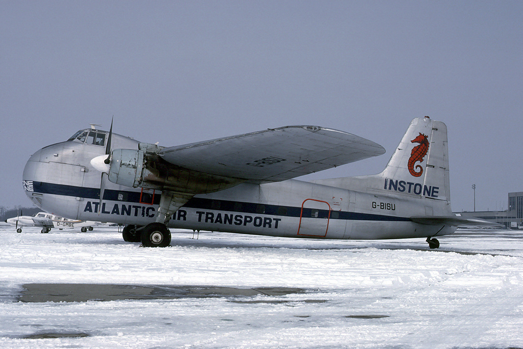 Atlantic Air Transport Bristol 170 Freighter